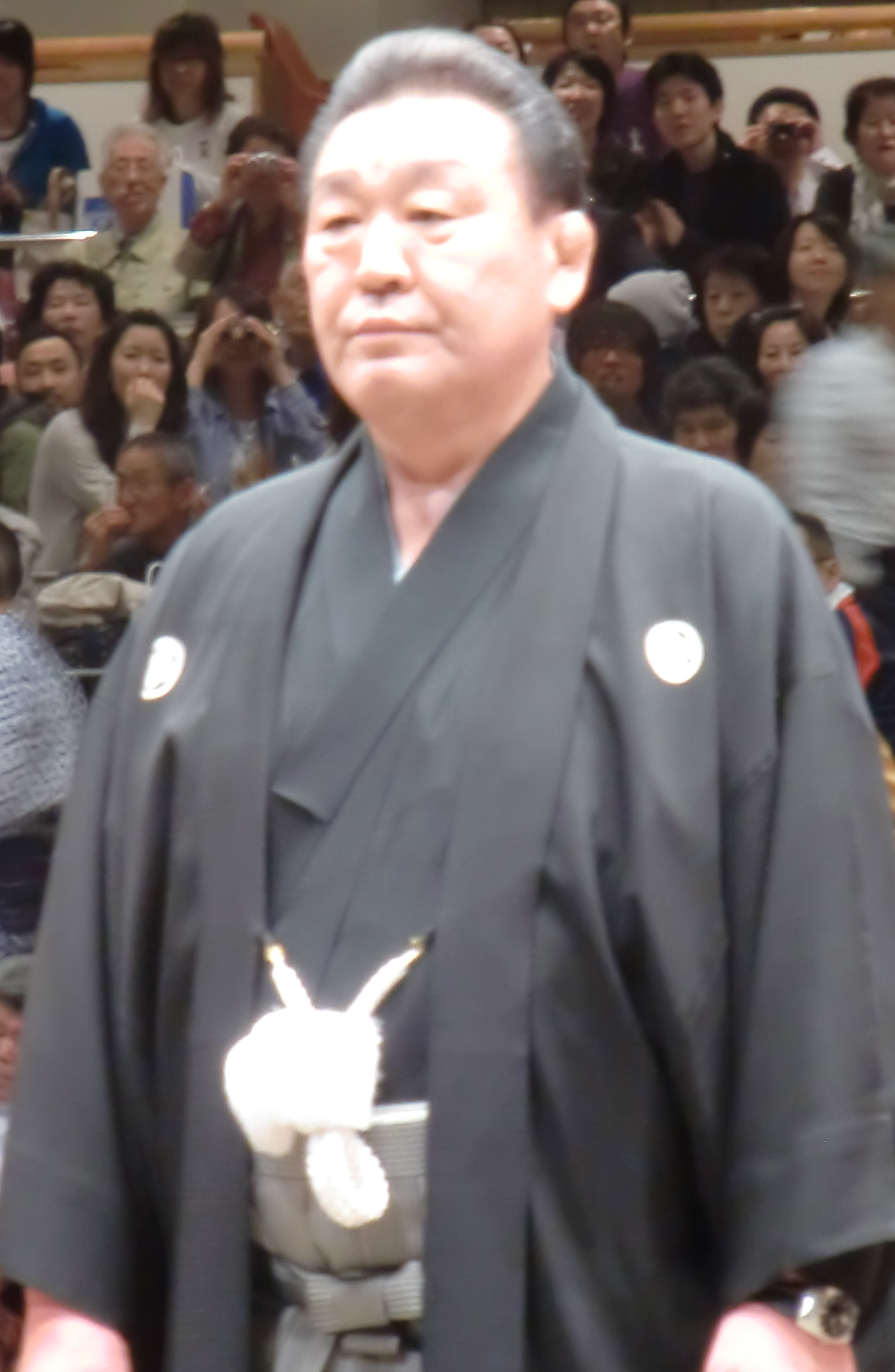 taken at May 2010 tournament